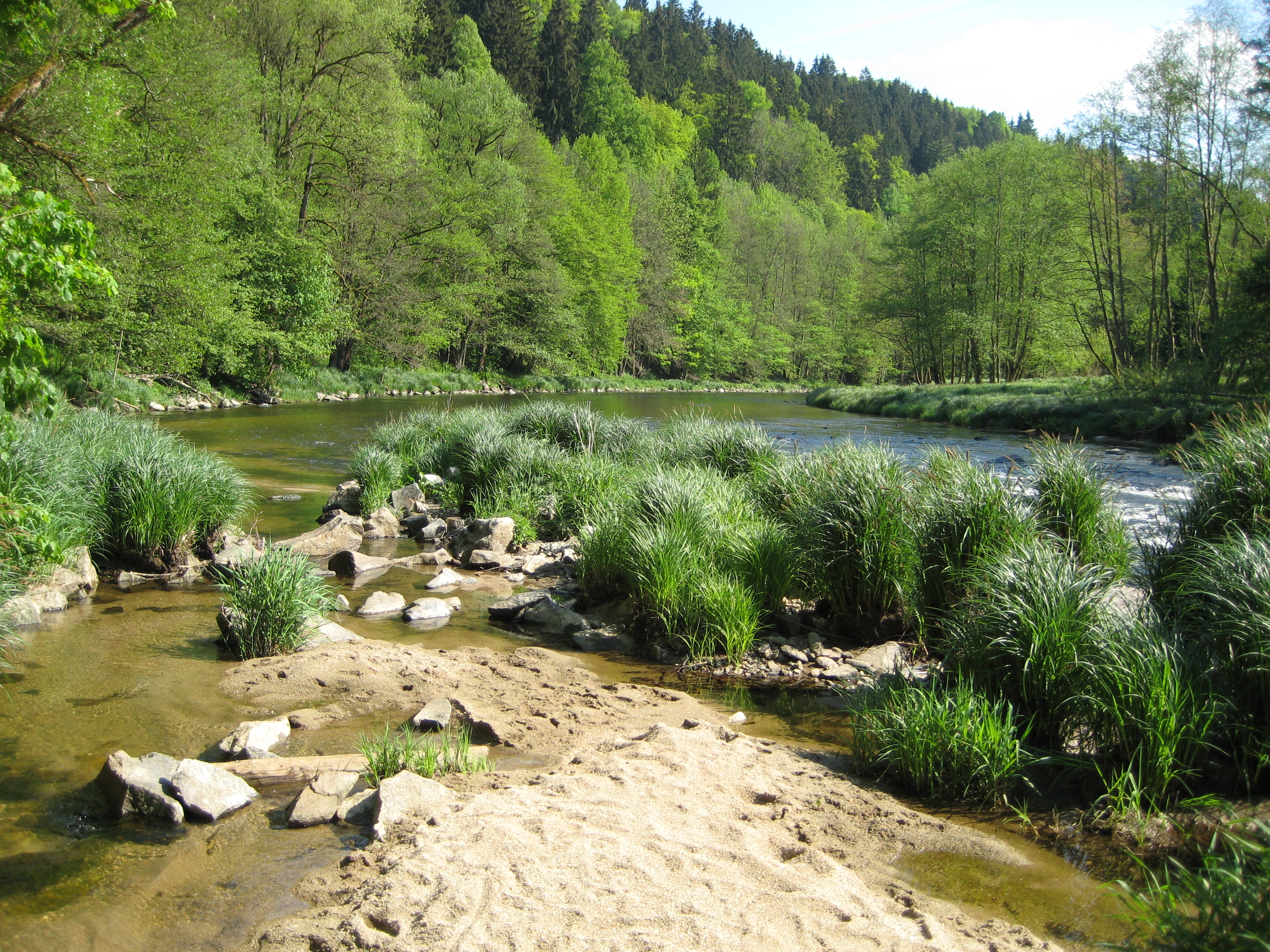 The Ilz between Kalteneck and Fürsteneck